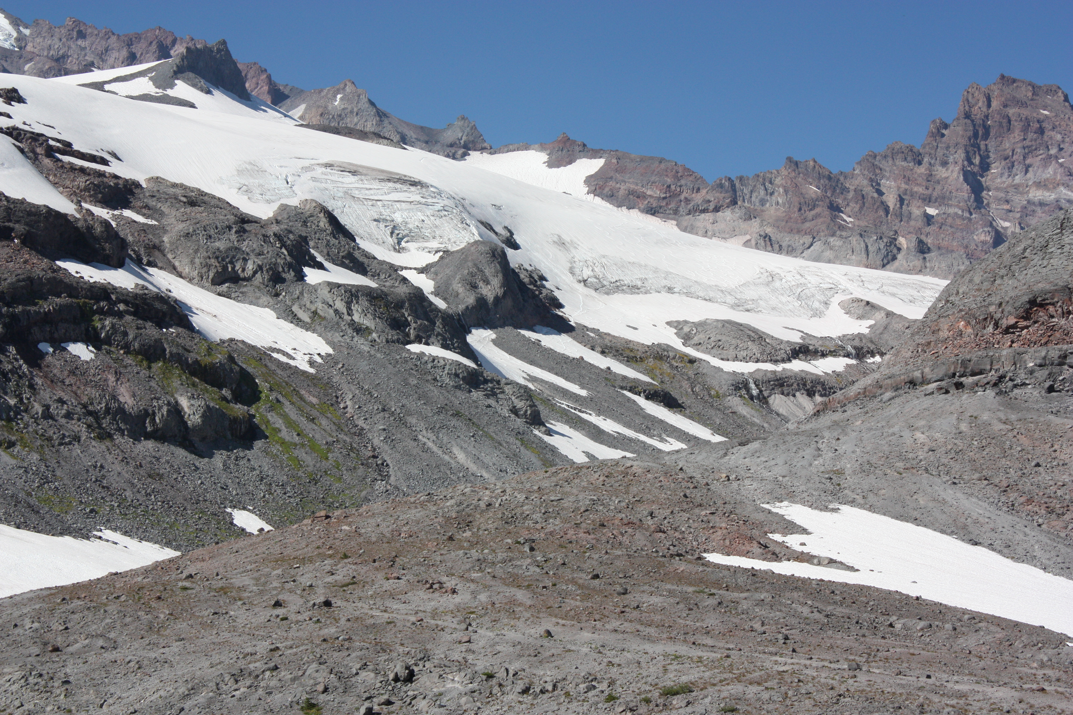 Paradise Glacier (upper portion); Anvil Rock (9584 feet, upper left above glacier); Little Tahoma (right skyline)